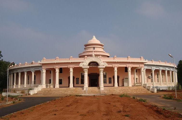 Tamiluniversitylibrarybuilding தமிழ்ப்பல்கலைக்கழகநூலகக்கட்டடம்